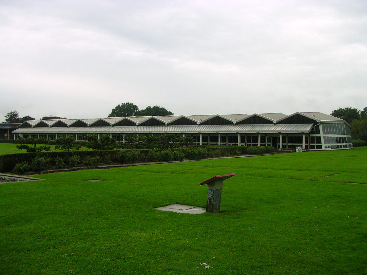 Museum at Fishbourne Roman Palace, West Sussex, England.